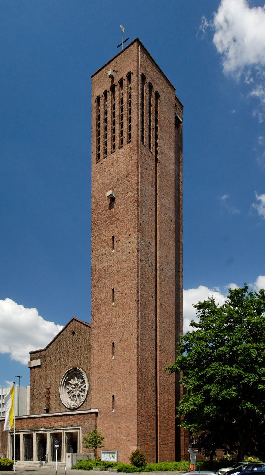 Saint Franziskus Xaverius in Düsseldorf-Mörsenbroich, Germany